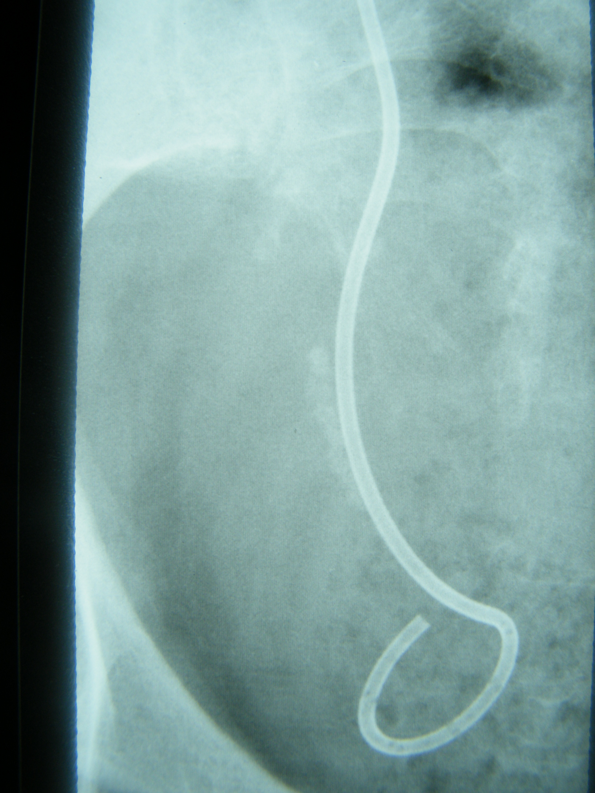 Fragments of the large Stone in the distal right Ureter after a single session of ESWL